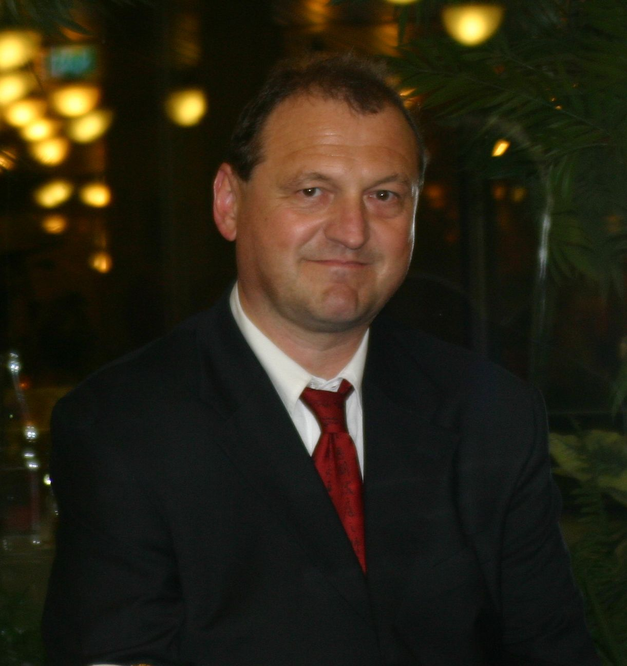 Helmut Matt – offical portrait